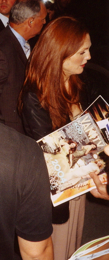 Julianne Moore at the premiere of Trust the Man, Toronto Film Festival 2005